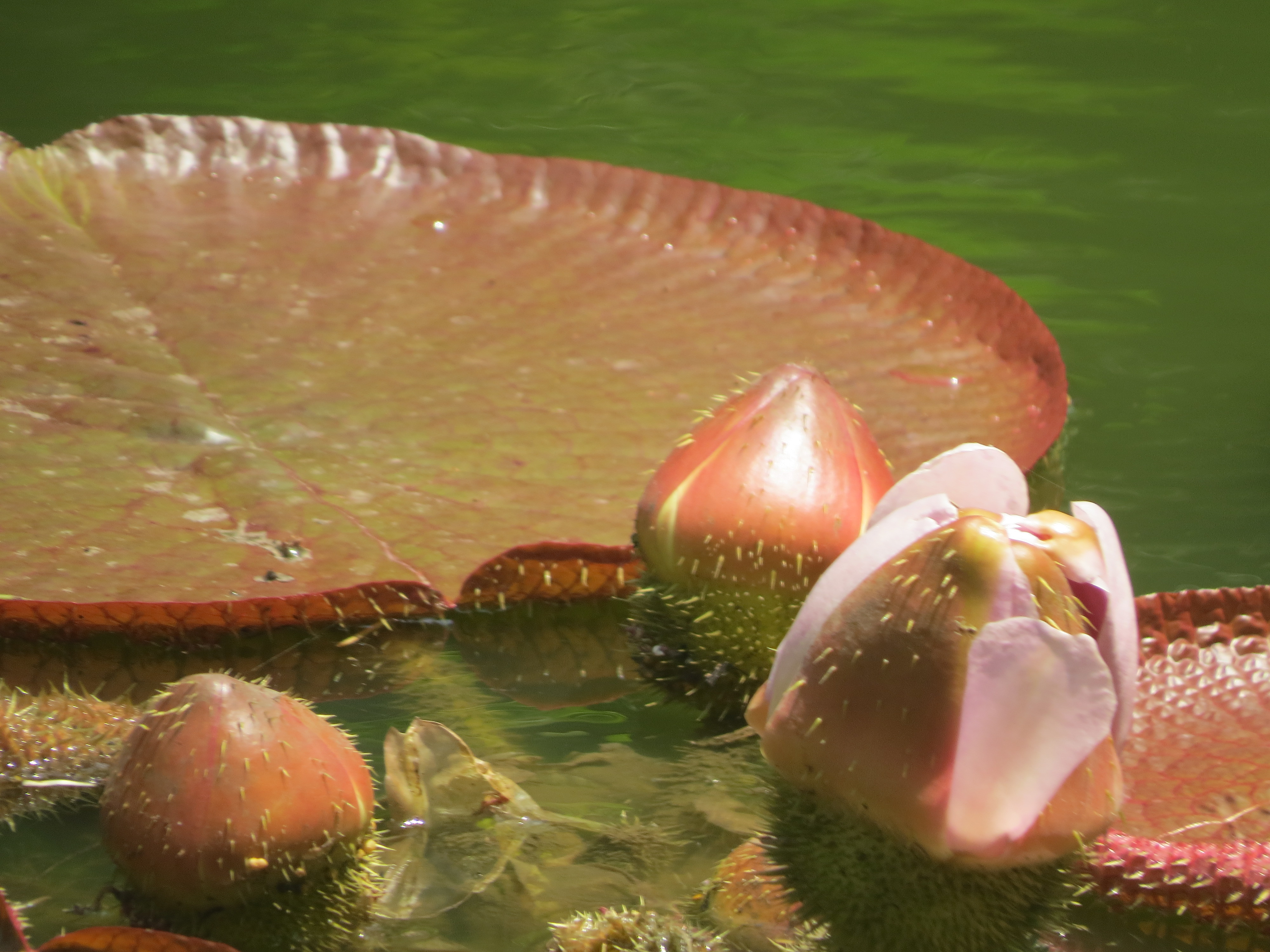 Singapore garden